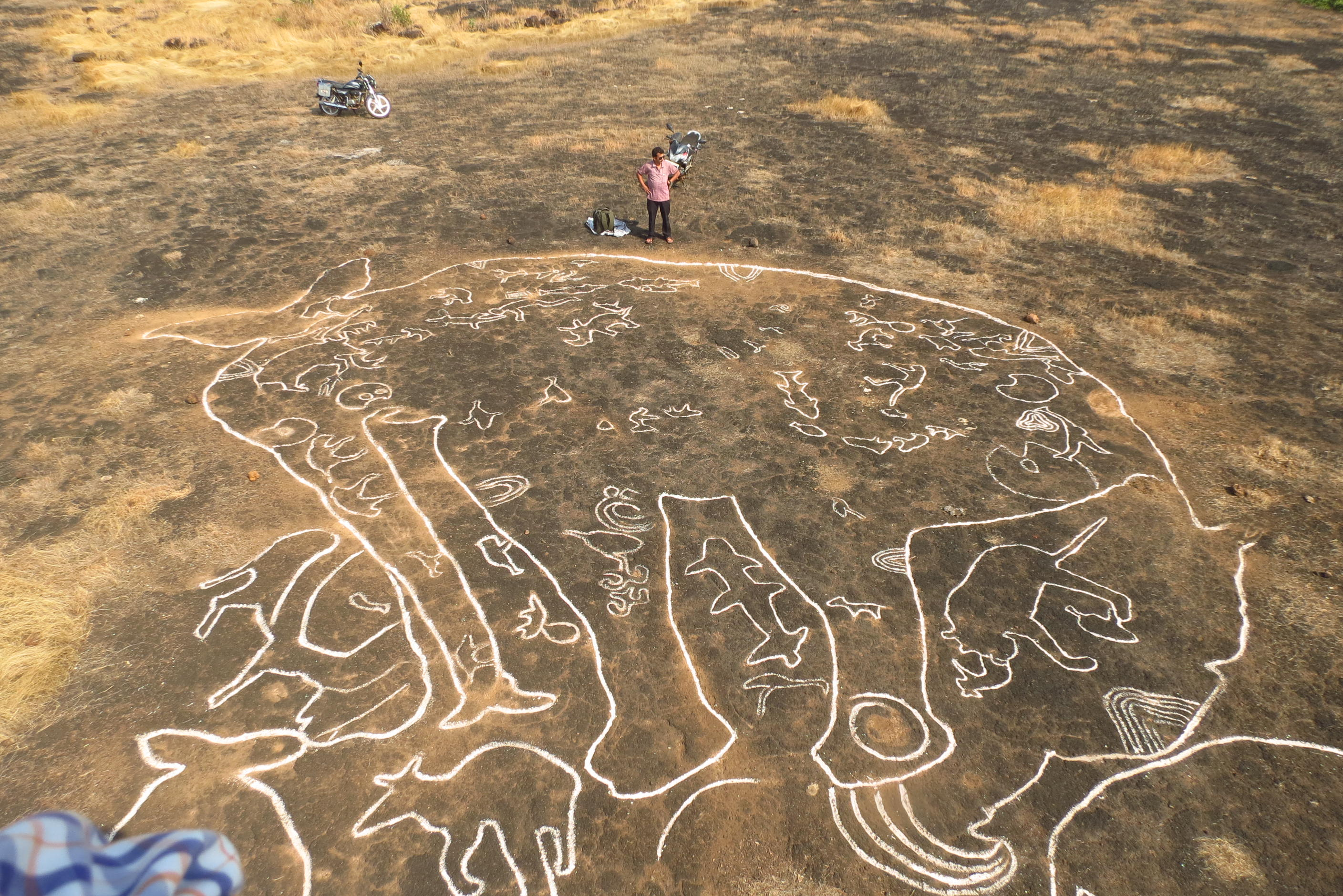 a cluster of more than100 figures consisting wild animal,bird,aquatic animal ------ at tal. rajapur dist. ratnagiri